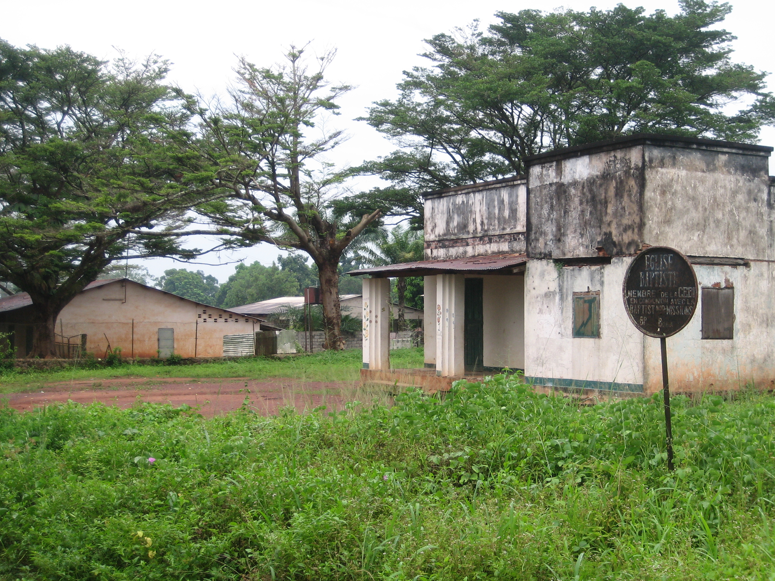 Fading colonial heritage in Boda, Central African Republic.